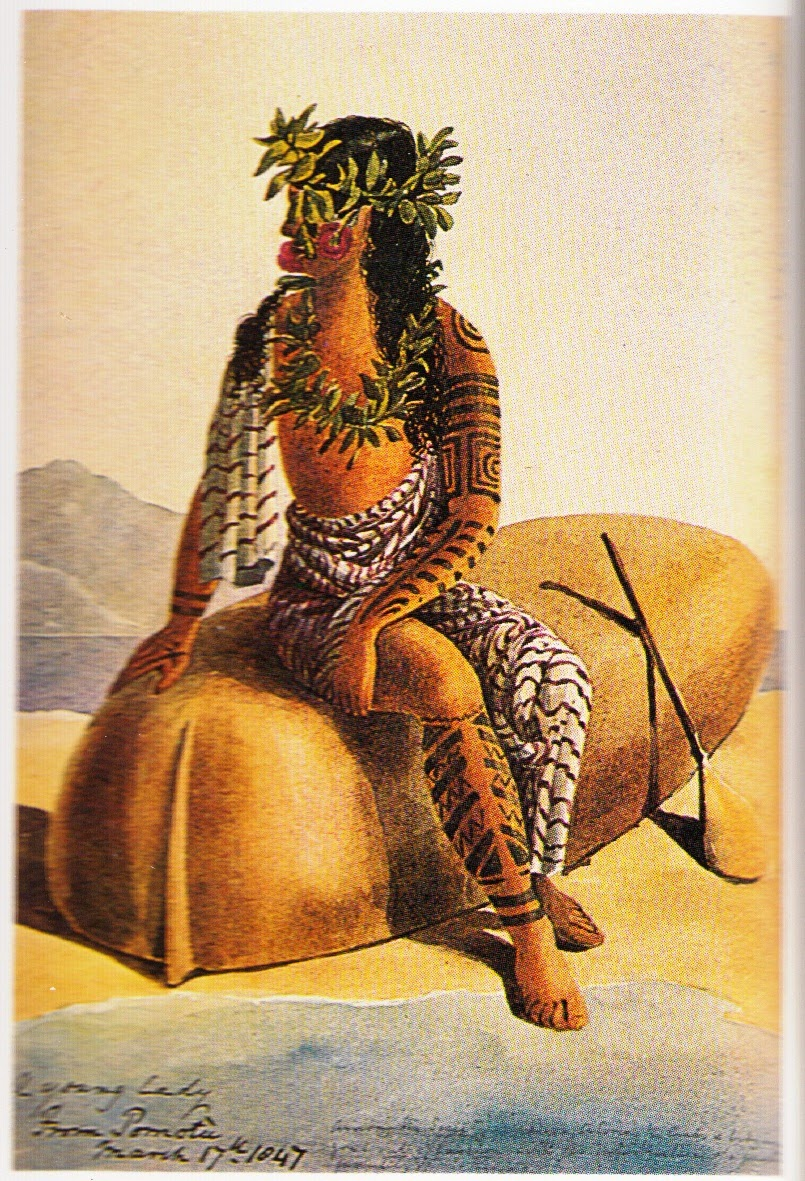 Young Lady from Pomotu, March 17, 1847.